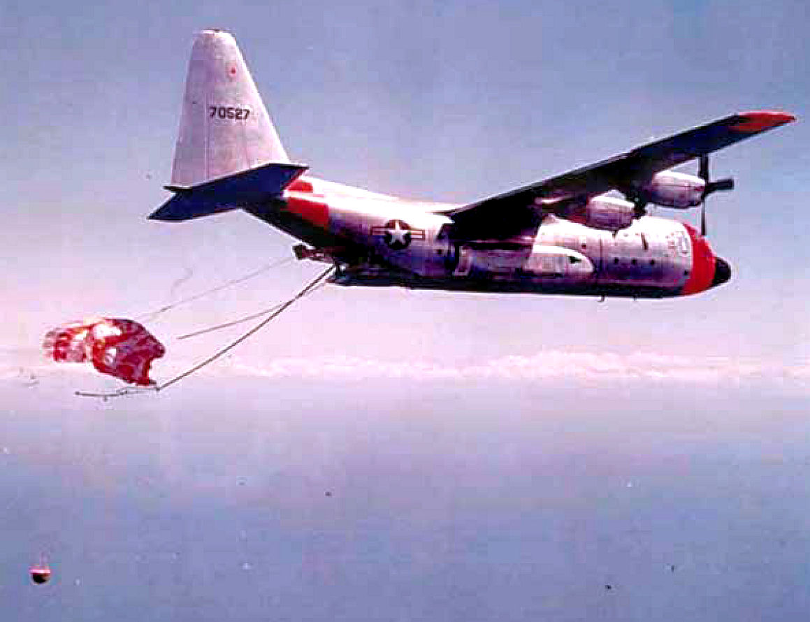 6593d Test Squadron - Lockheed JC-130B 57-0527 recovering a test parachute and payload./Photo credit: USAF